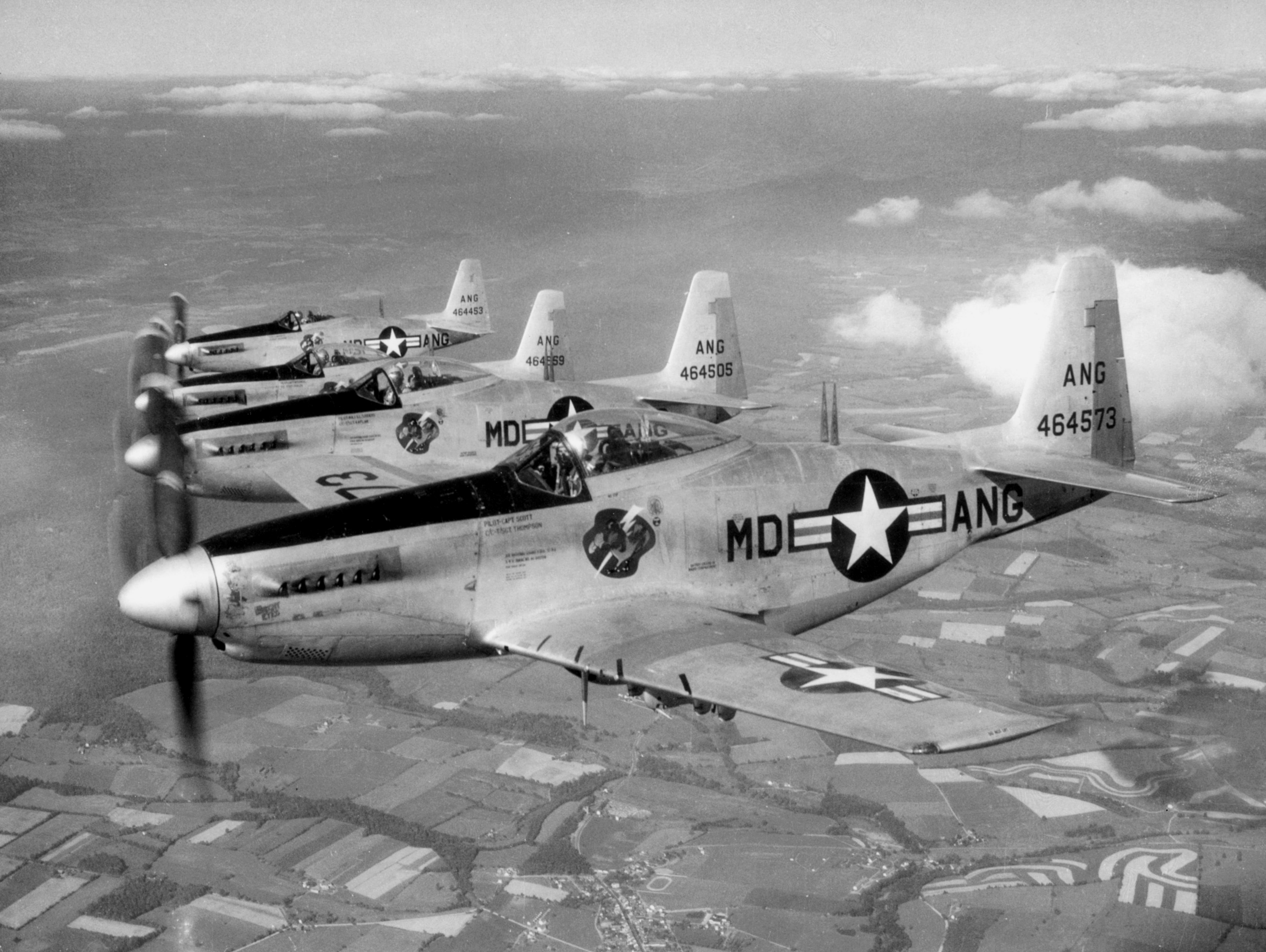 Four North American F-51H Mustang fighters of the Maryland Air National Guard's aerobatic team "Guardian Angels" in close formation. Maryland had an aerial demonstration team from 1952 to 1953.